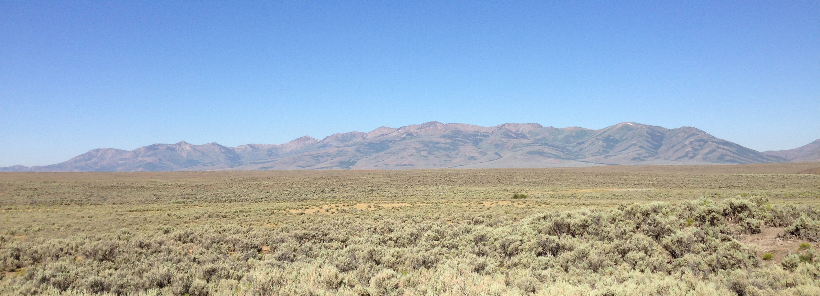 Central core of the Independence Mountains, Nevada viewed from Elko County Route 746 (North Fork-Charleston Road)